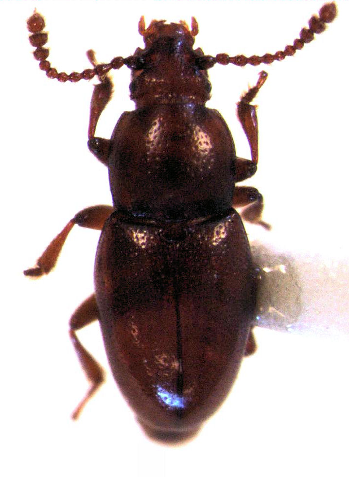 adult Thortus? n. sp., length about 3 mm. Adams I., pitfall trap S5 (50°51′54.3″S 166°2′27″E / 50.865083°S 166.04083°E), S. rata forest - coastal, sooty shearwater colony. Auckland Islands, New Zealand, 19 Jan-3 Feb 2011, G. Elliott, K. Walker.